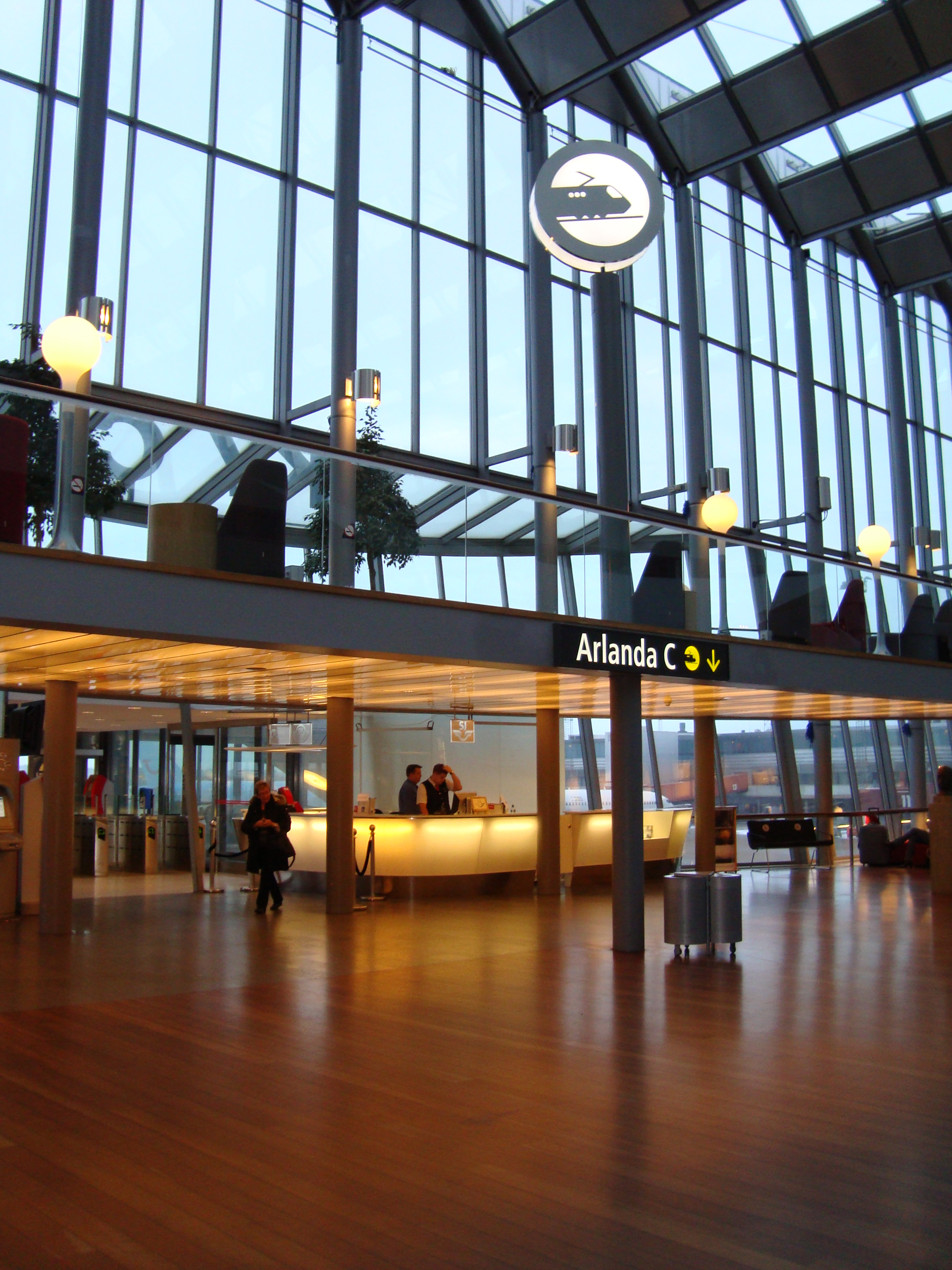 Arlanda Central Station seen from the inside of Terminal 5